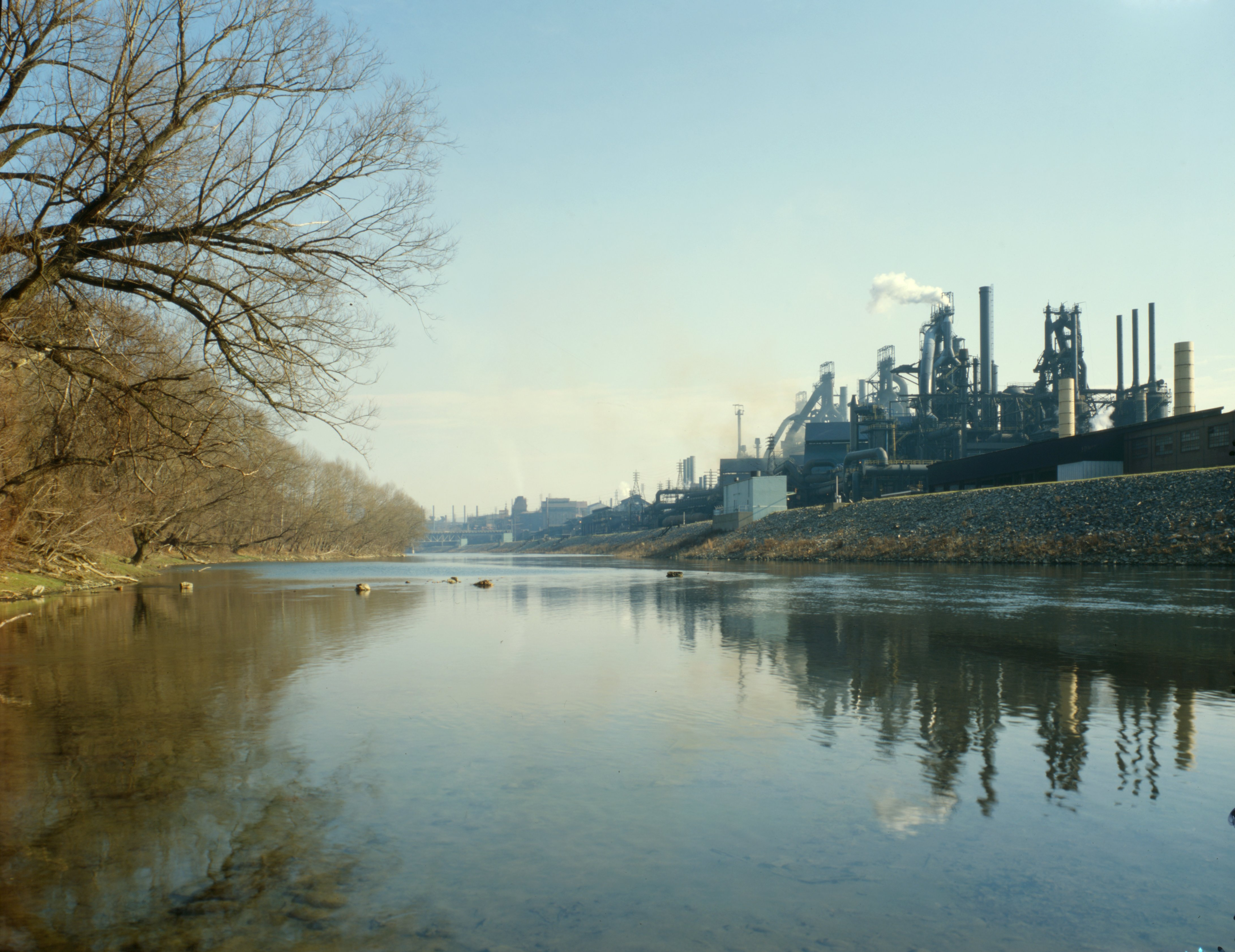 Bethlehem Steel Corporation, South Bethlehem Works, Along Lehigh River, North of Fourth Street, West of Minsi Trail Bridge, Bethlehem, Northampton County, PA View of works from Lehigh River, looking east.